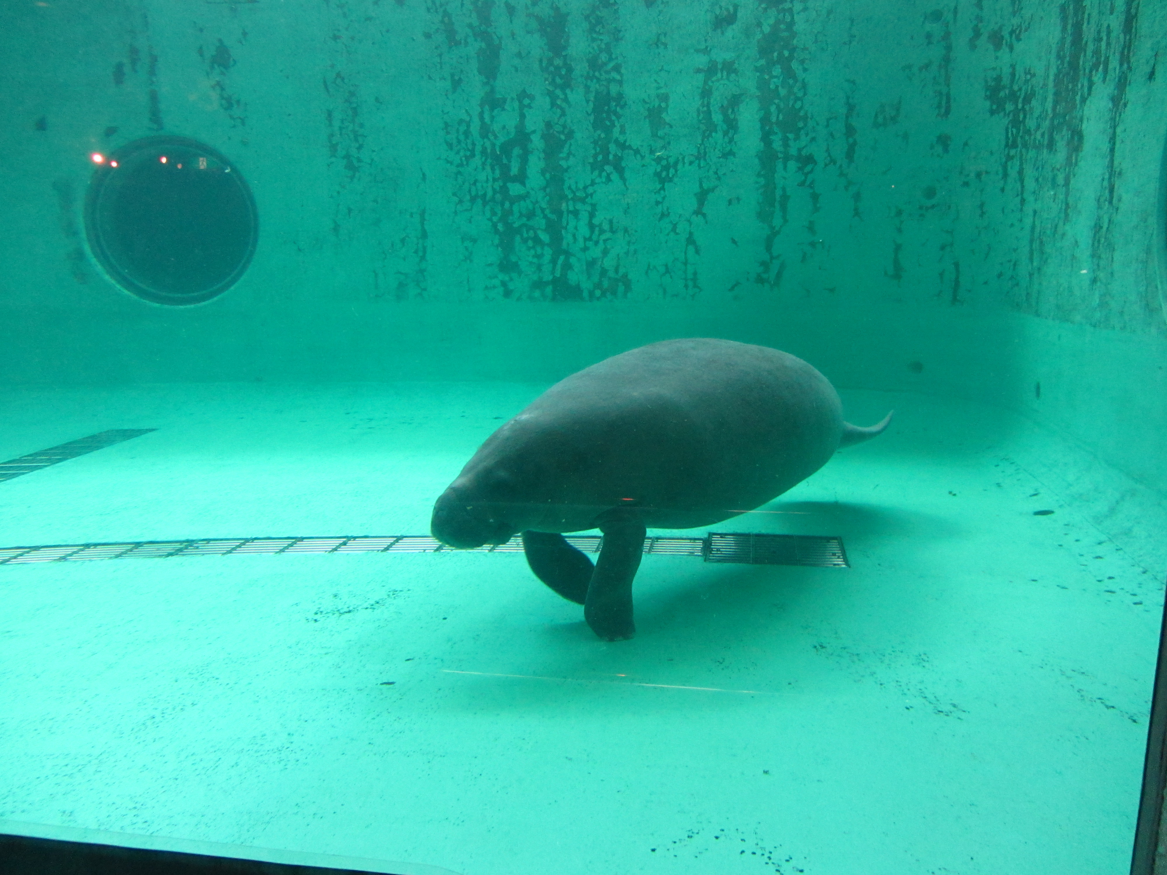 Manatee in a pool near Churaumi Aquarium, Ocean Expo Park, Okinawa, Japan